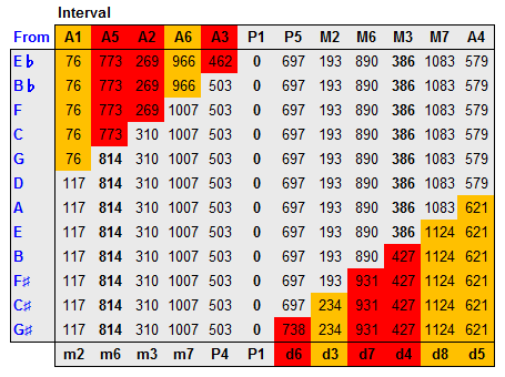 Sizes in cents of the 144 intervals in the D-based quarter-comma meantone tuning system. Bold font indicates just intervals. Wolf intervals were highlighted in red. The values were accurately computed using Microsoft Excel, then rounded to integers. The image was produced using Microsoft Excel and captured with Microsoft Snipping Tool.